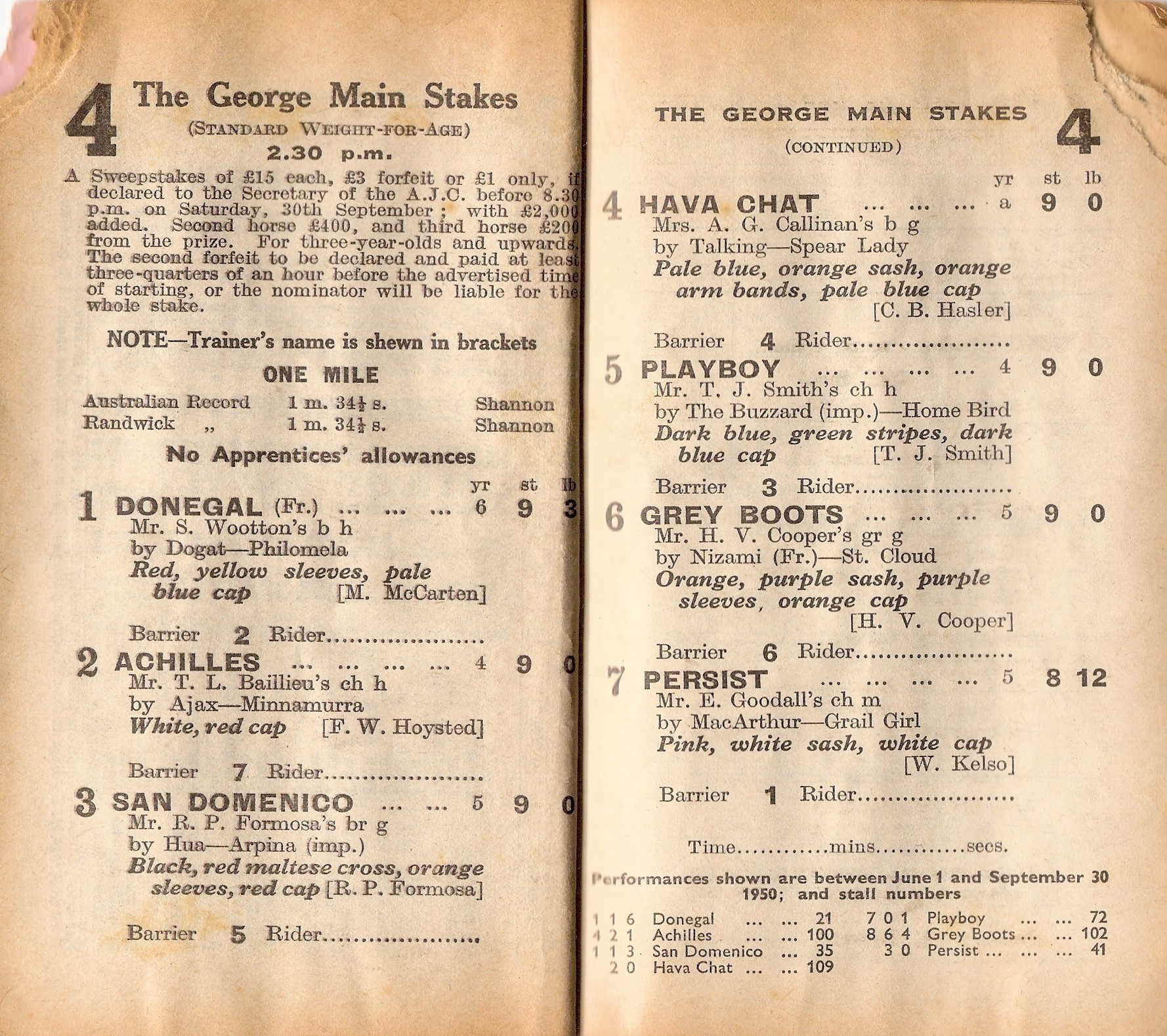 COPIED FROM ORIGINAL RACEBOOK